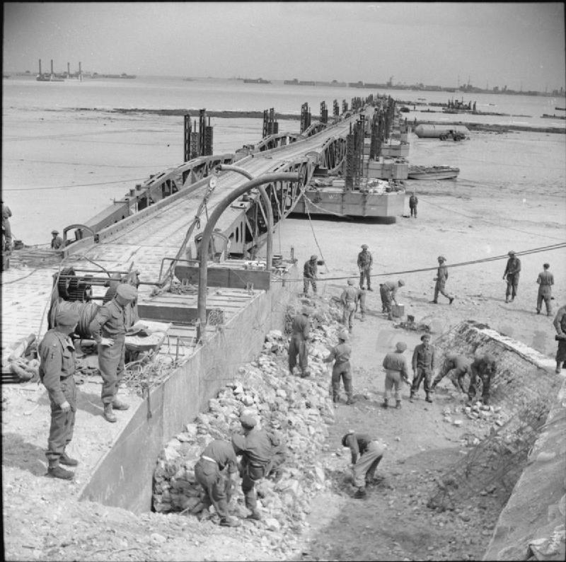 The British Army in the Normandy Campaign 1944 Engineers at work on the roadway leading to the Mulberry artificial harbour at Arromanches, 14 June 1944.